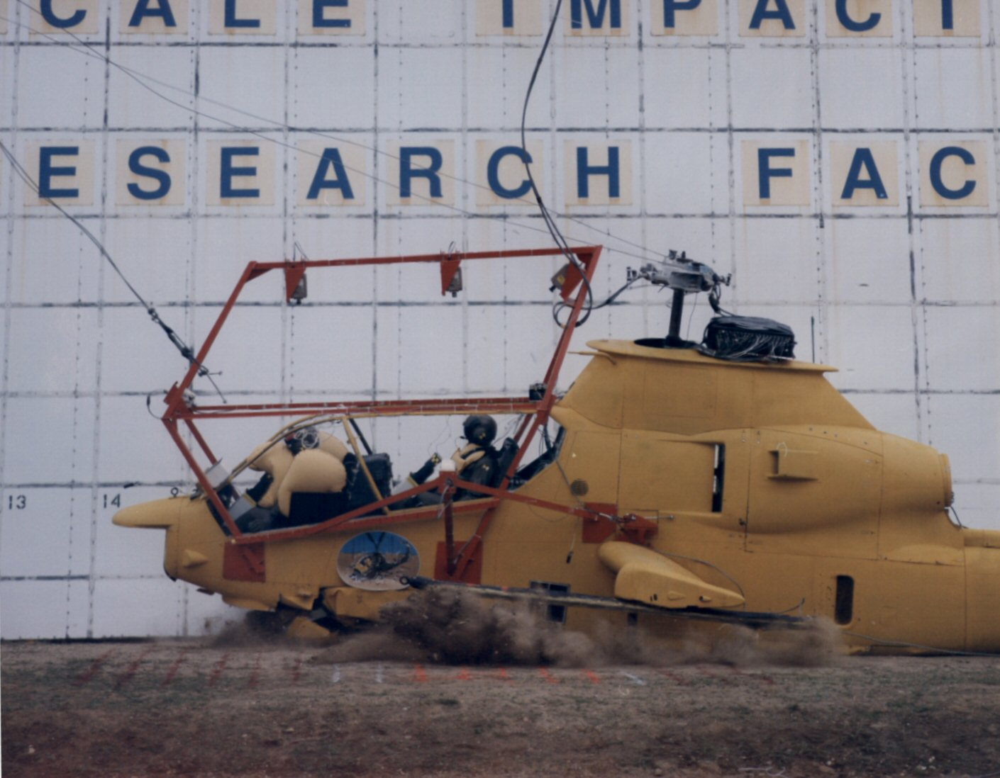 Crash test of an US Army AH-1G (Mod) with various inflatable restraint systems (airbags) at the NASA LaRC Impact Dynamics Research Facility (1993).